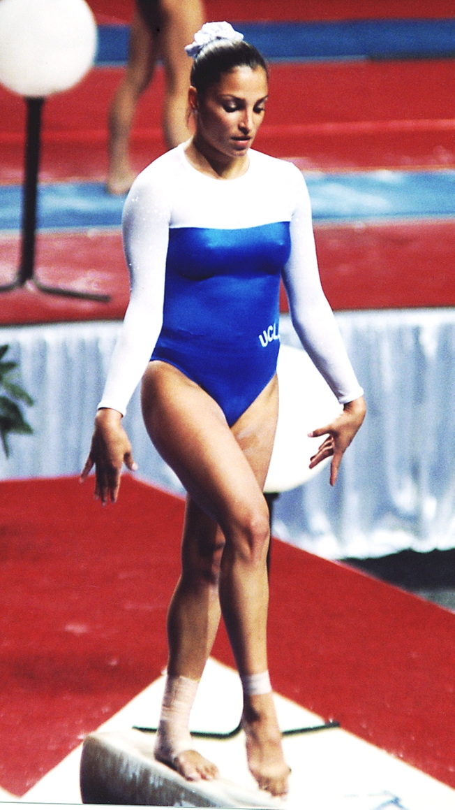 Mohini Bhardwaj on balance beam at 2001 US National Gymnastics Championships, at which she finished third overall and first on vault. Philadelphia, Pennsylvania, USA. August, 2001. Photo © J. Bierbaum